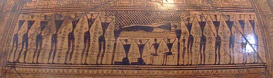 Athenian funerary amphora, Late geometric I. The main scene shows the prothesis and mourning for the dead. Over the bier is the shroud. Men, women and a child lament with the hands on their heads in the usual mourning gesture.